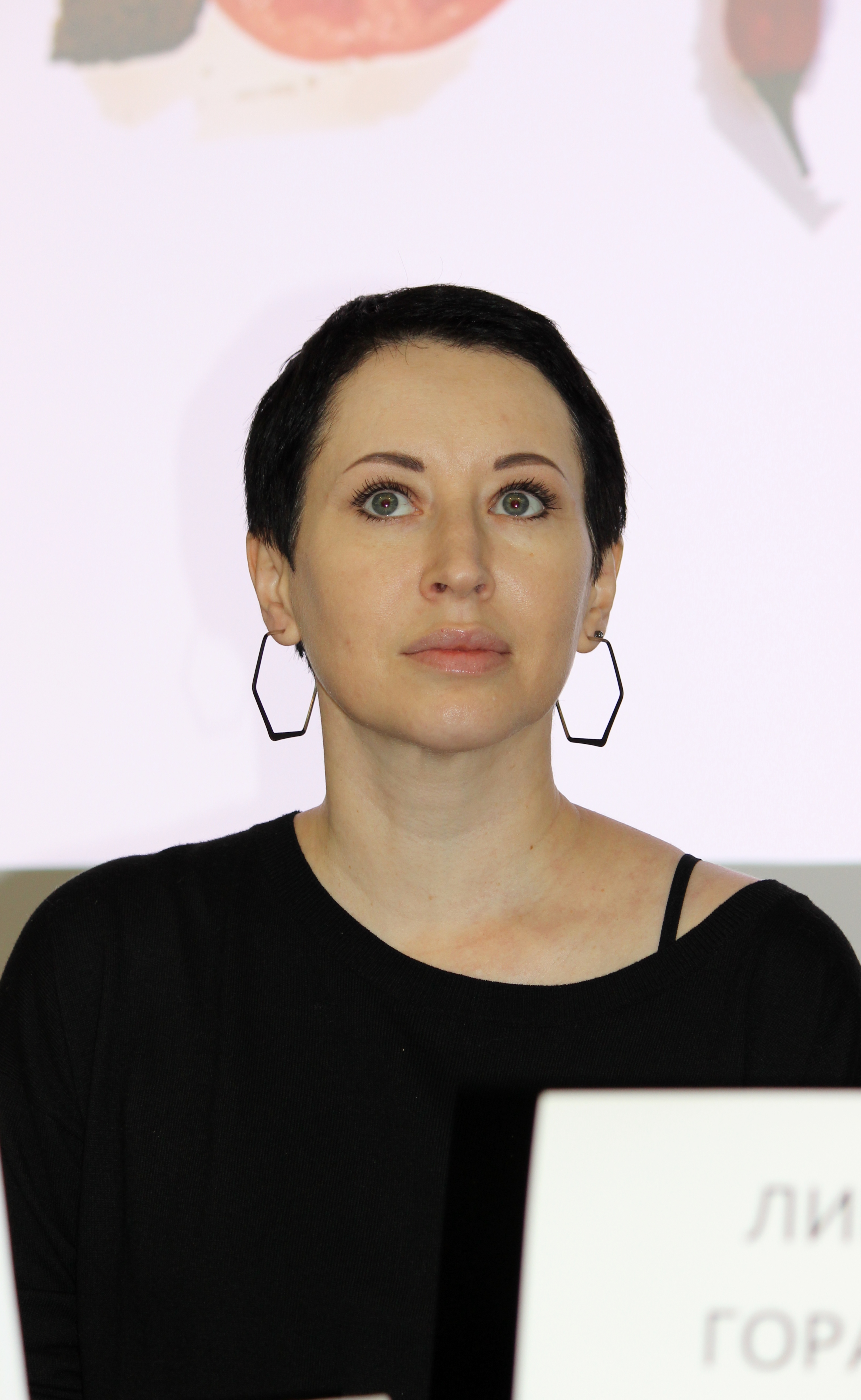 Russian writer Linor Goralik at the 21 Moscow International Fair Non/fiction 2019